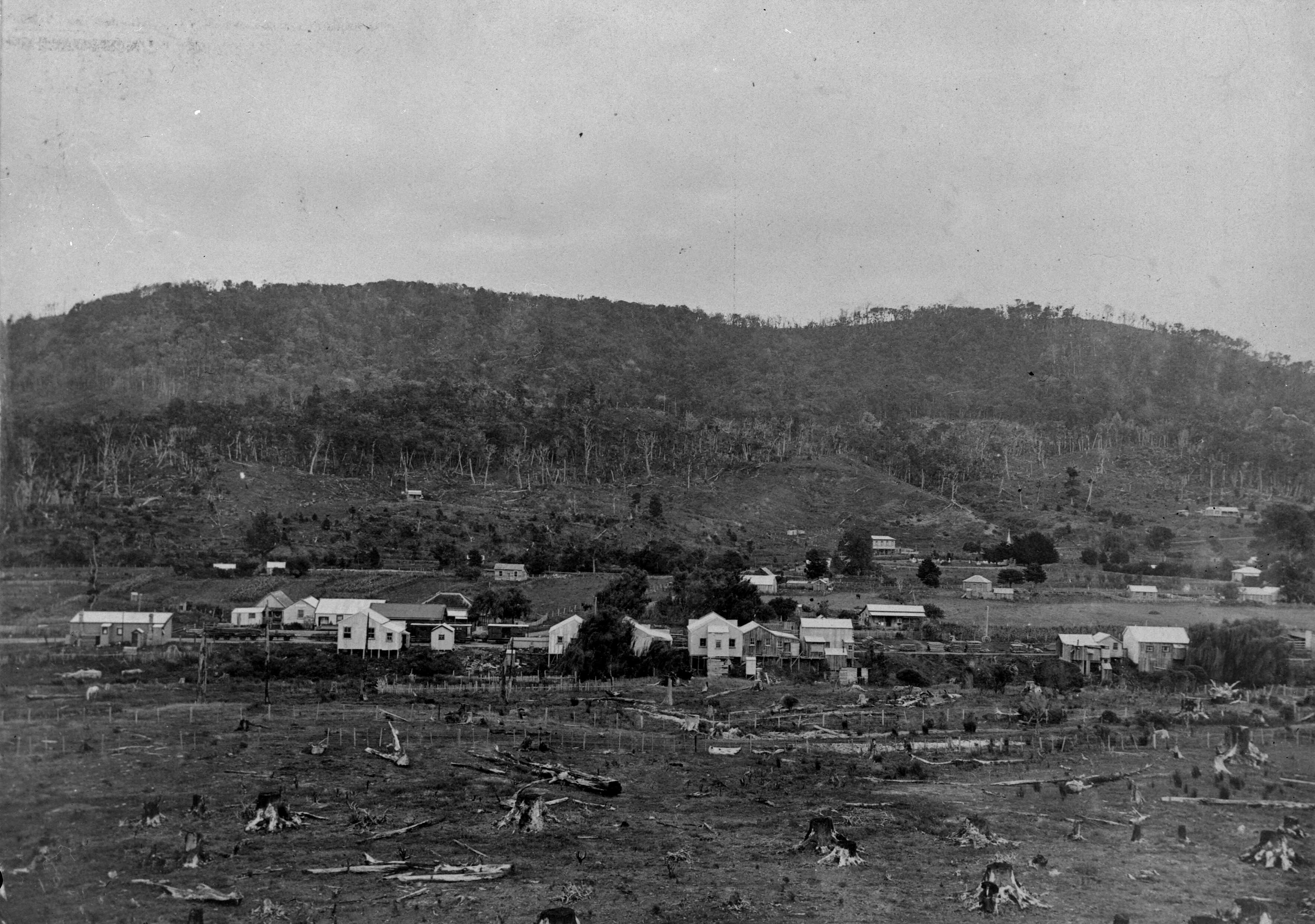 Settlement of Kaihu, circa 1912. Photograph taken by Albert Percy Godber.